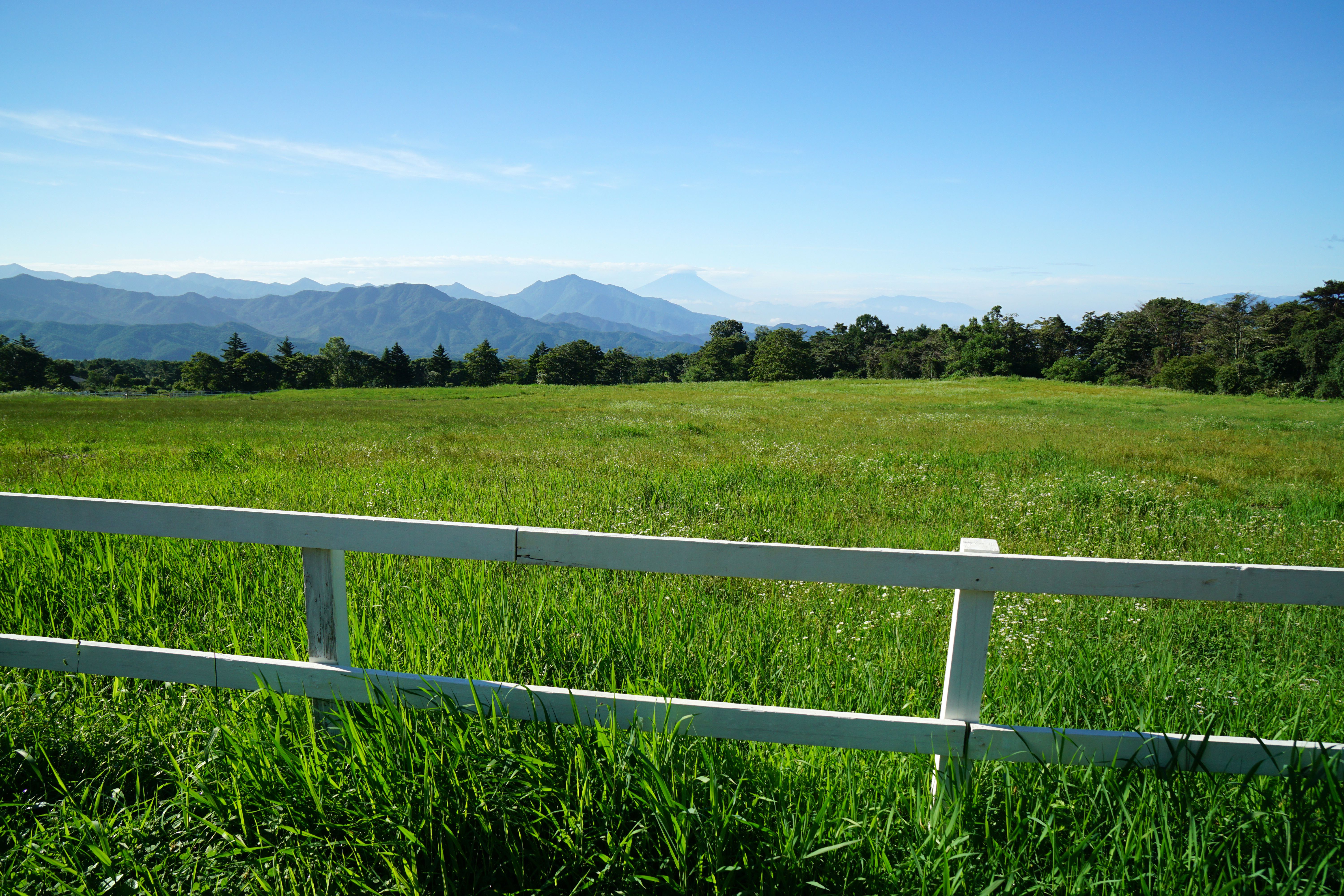 Seisen-ryo in Hokuto, Yamanashi prefecture, Japan.